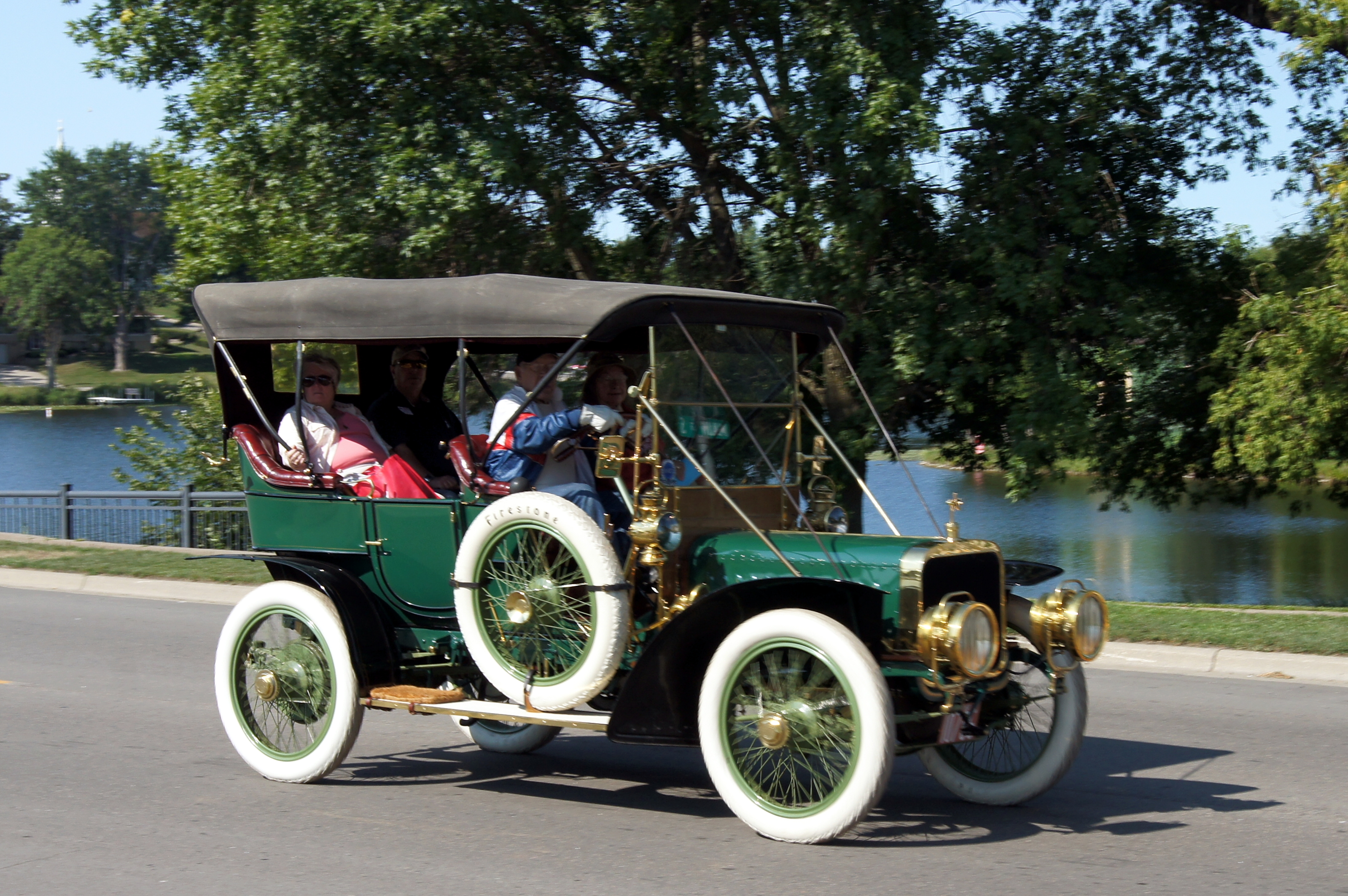 26th Annual New London to New Brighton Antique Car Run August 8, Pre-Tour